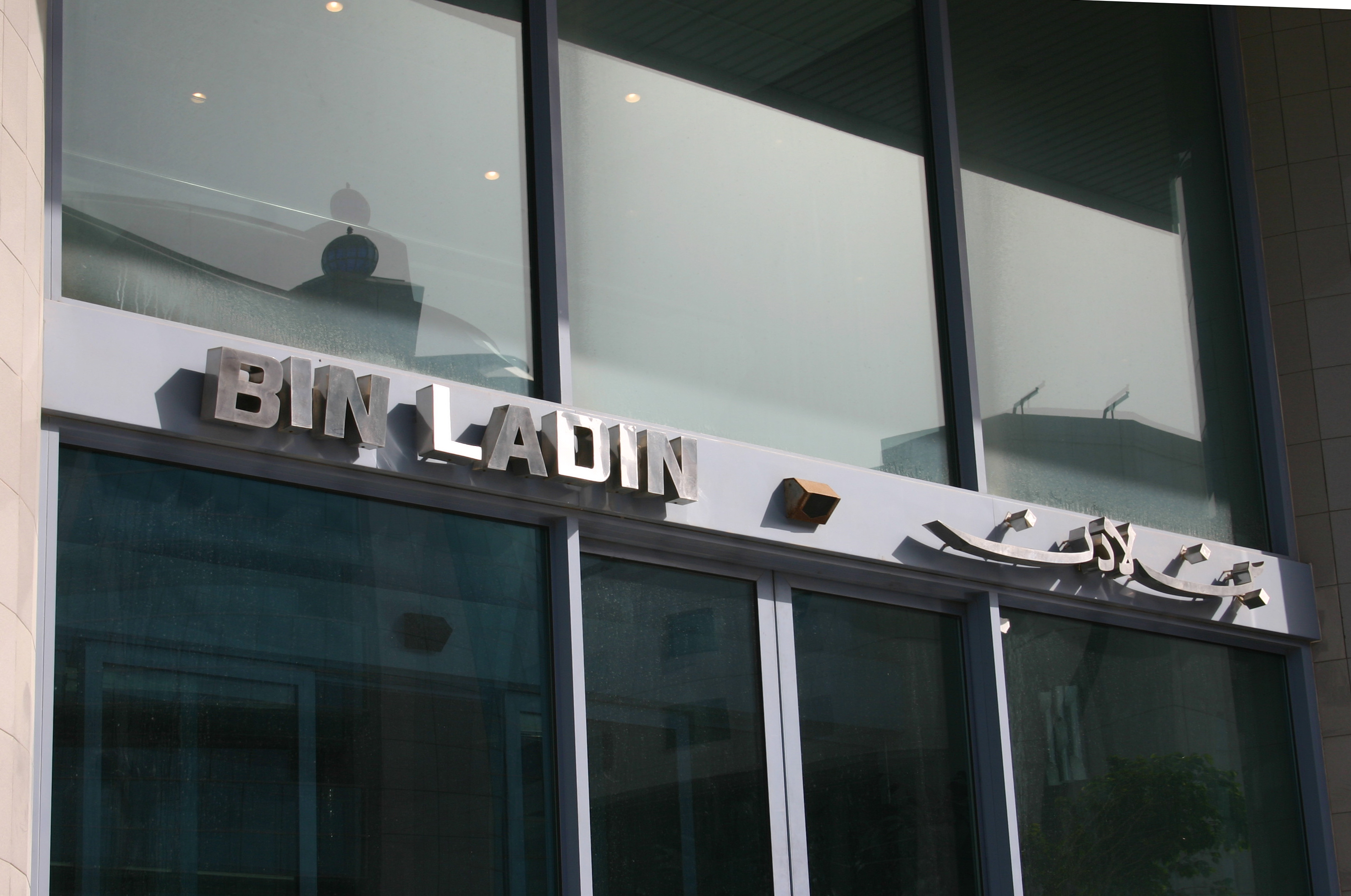 Bin Ladin building. Dubai, United Arab Emirates. 2004. Photo by Bertil Videt.